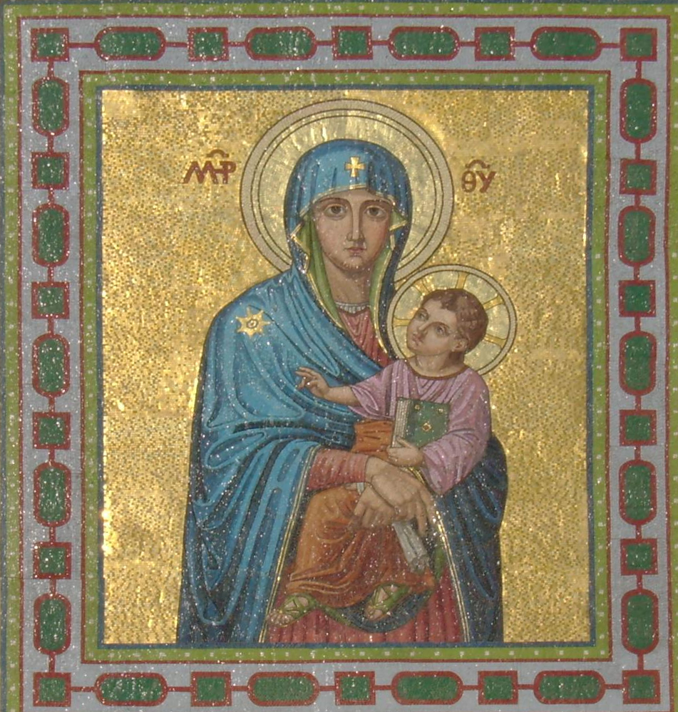 The Mosaic of Our Lady of the Snow by Viktor Foerster, above entrance portal of Church of Our Lady of the Snow. It is located on Jungmann Square in New Town of Prague, Czech Republic.